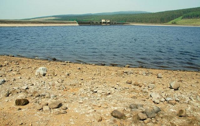 Altnahinch Dam near Loughguile (2) See 813470. The water level is noticeably down after a long dry spell.